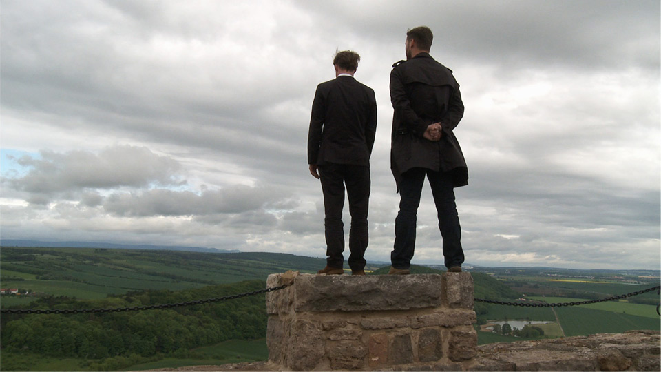 Ingo Niermann and Erik Niedling on the battlements of Castle Wachsenburg in Thuringia, Germany. Cover art for their documentary "The Future of Art" (2010).